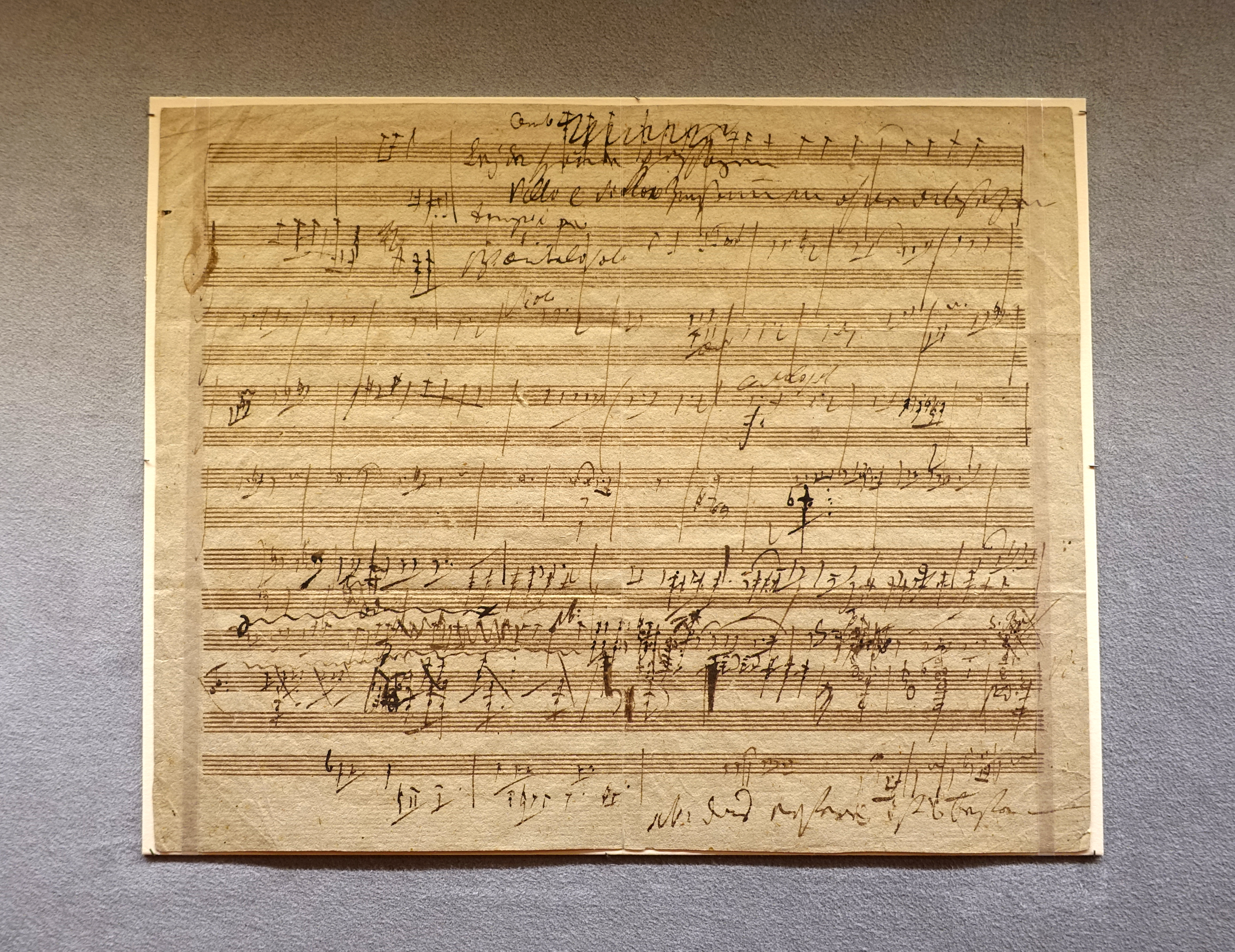 Exhibit in the Morgan Library & Museum - New York City, New York, USA.